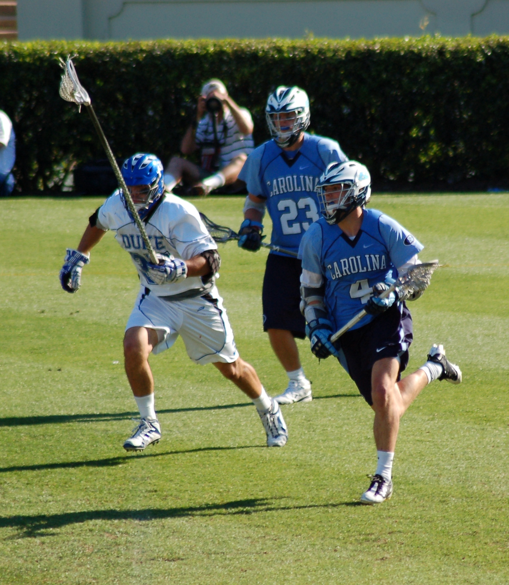 UNC lacrosse team playing Duke lacrosse team in the 2009 ACC Men's Lacrosse Tournament championship game. (Note: UNC's Billy Bitter is carrying the ball.)